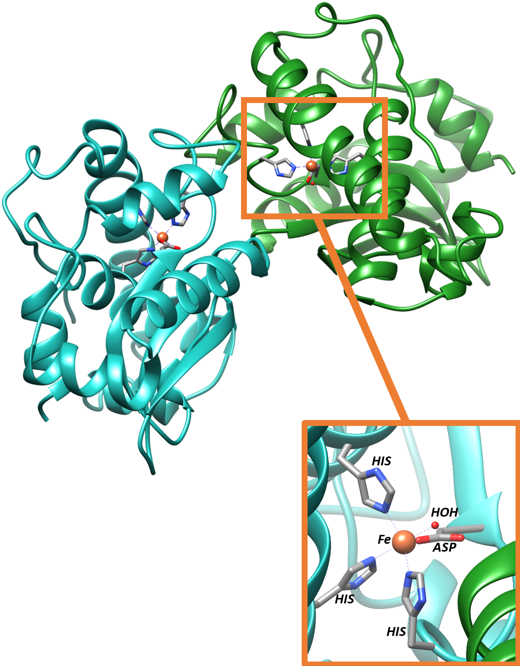 This is Iron Superoxide Dismutase, with a close up of the active site.